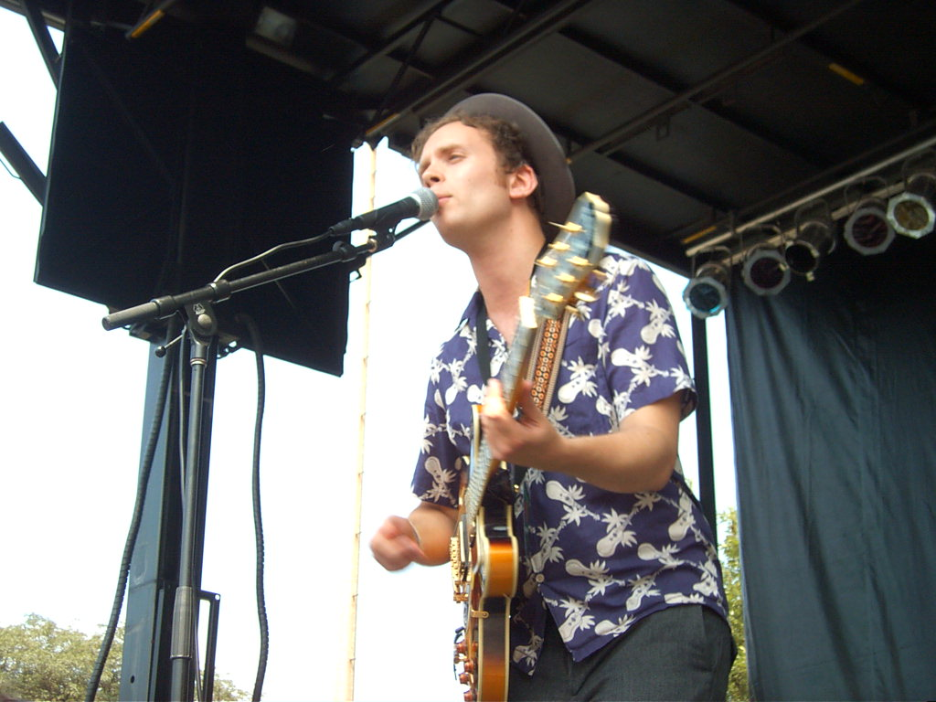 Jens Lekman at Pitchfork Music Festival, Union Park, Chicago, IL - June 30, 2006.